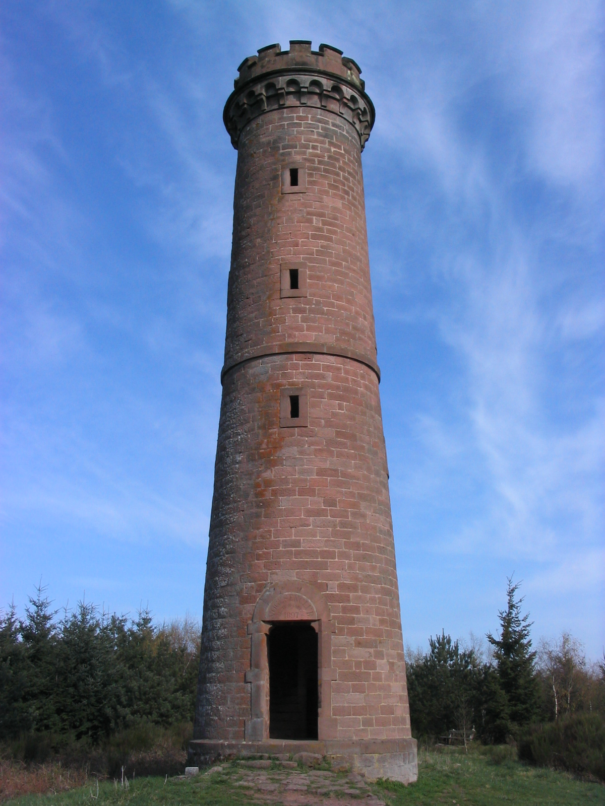 The « Brotsch » tower